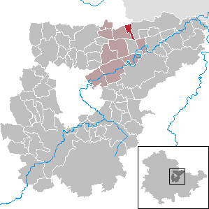 Nirmsdorf in Thuringia - District Weimarer Land